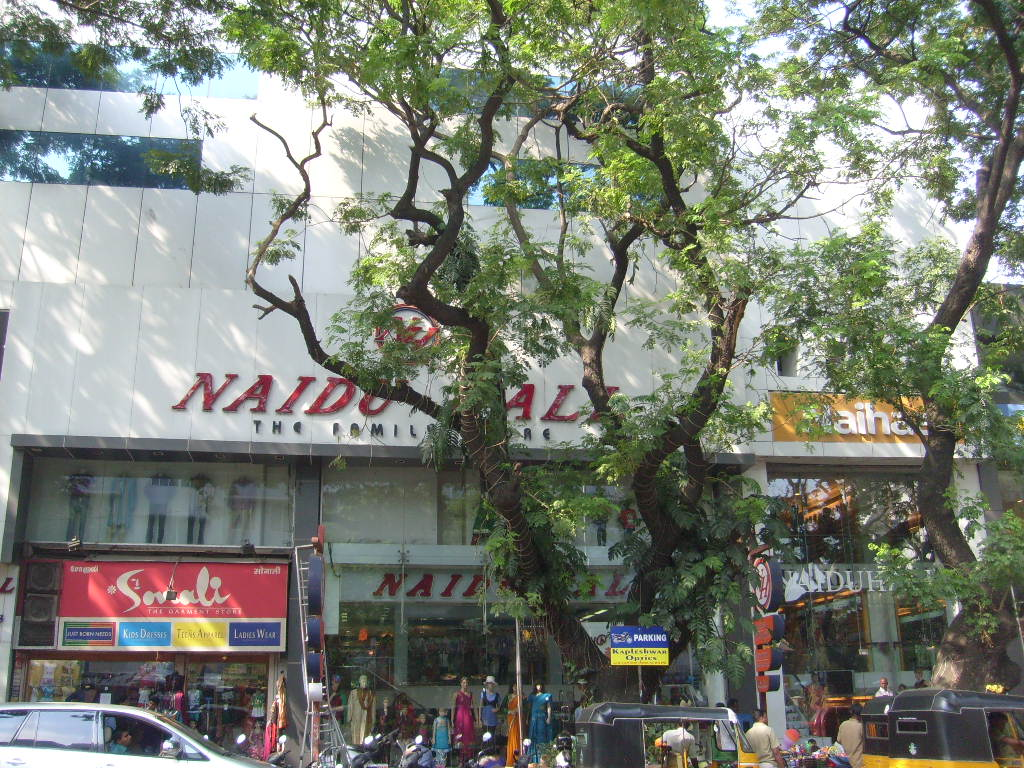 The main Naidu Hall showroom, Chennai